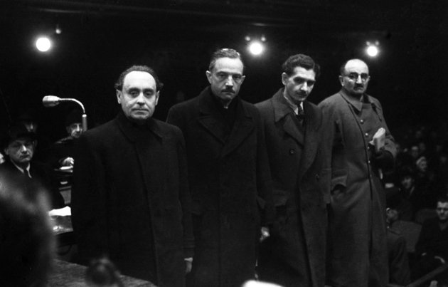 Ferenc Szálasi Before the People's Court